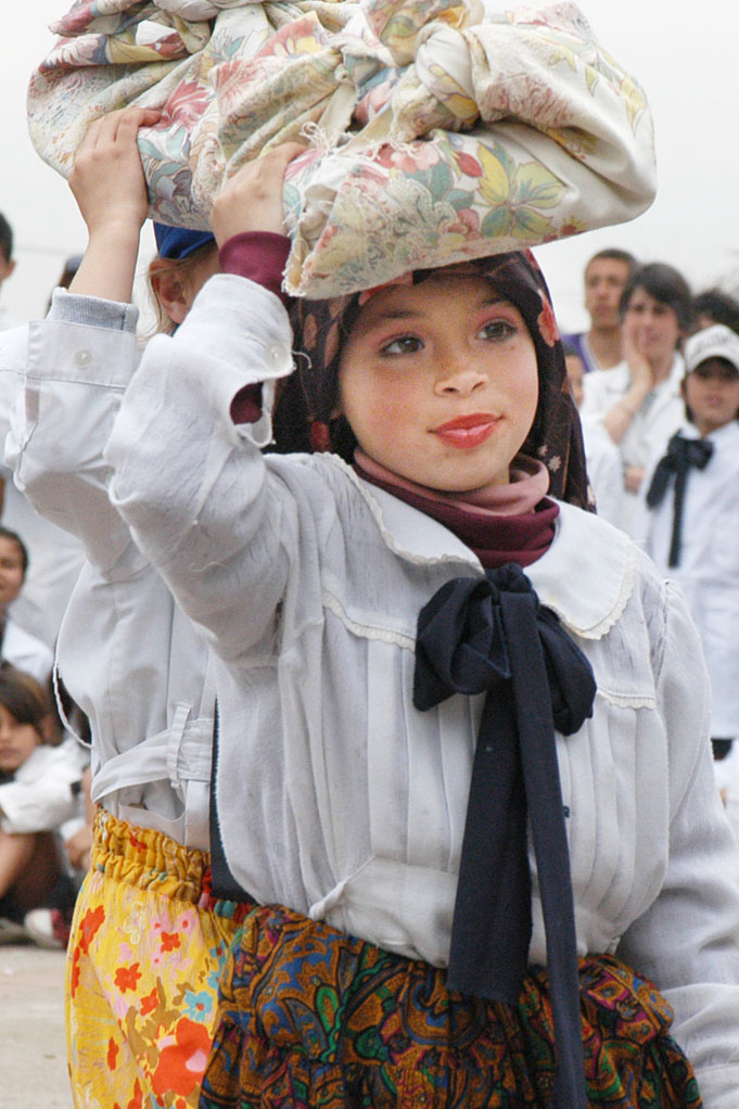 Montevideo, Uruguay